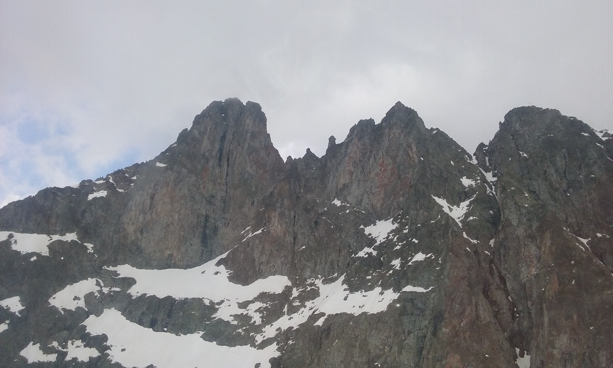 The highest point of Belledonne in France with 2 other summits.